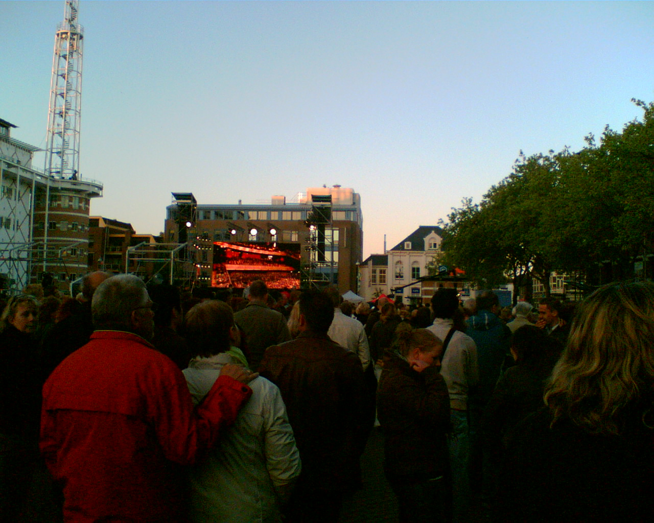 Photograph of public gathering watching memorial service 8 May 2009 on market square of Apeldoorn after the tragic Queen's Day incident on 30 April 2009.